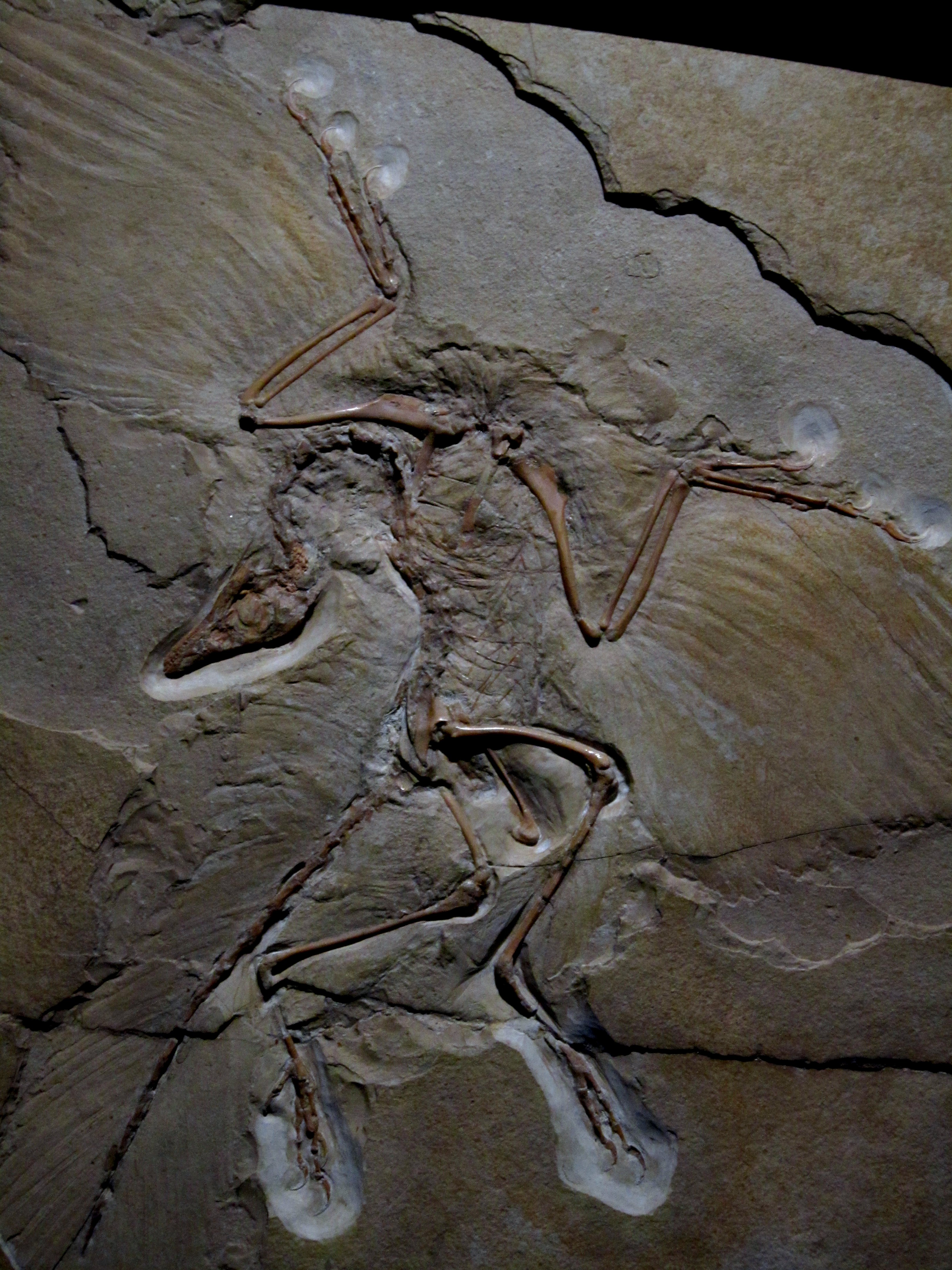 Archaeopteryx fossil in Museum für Naturkunde, Berlin, Germany.